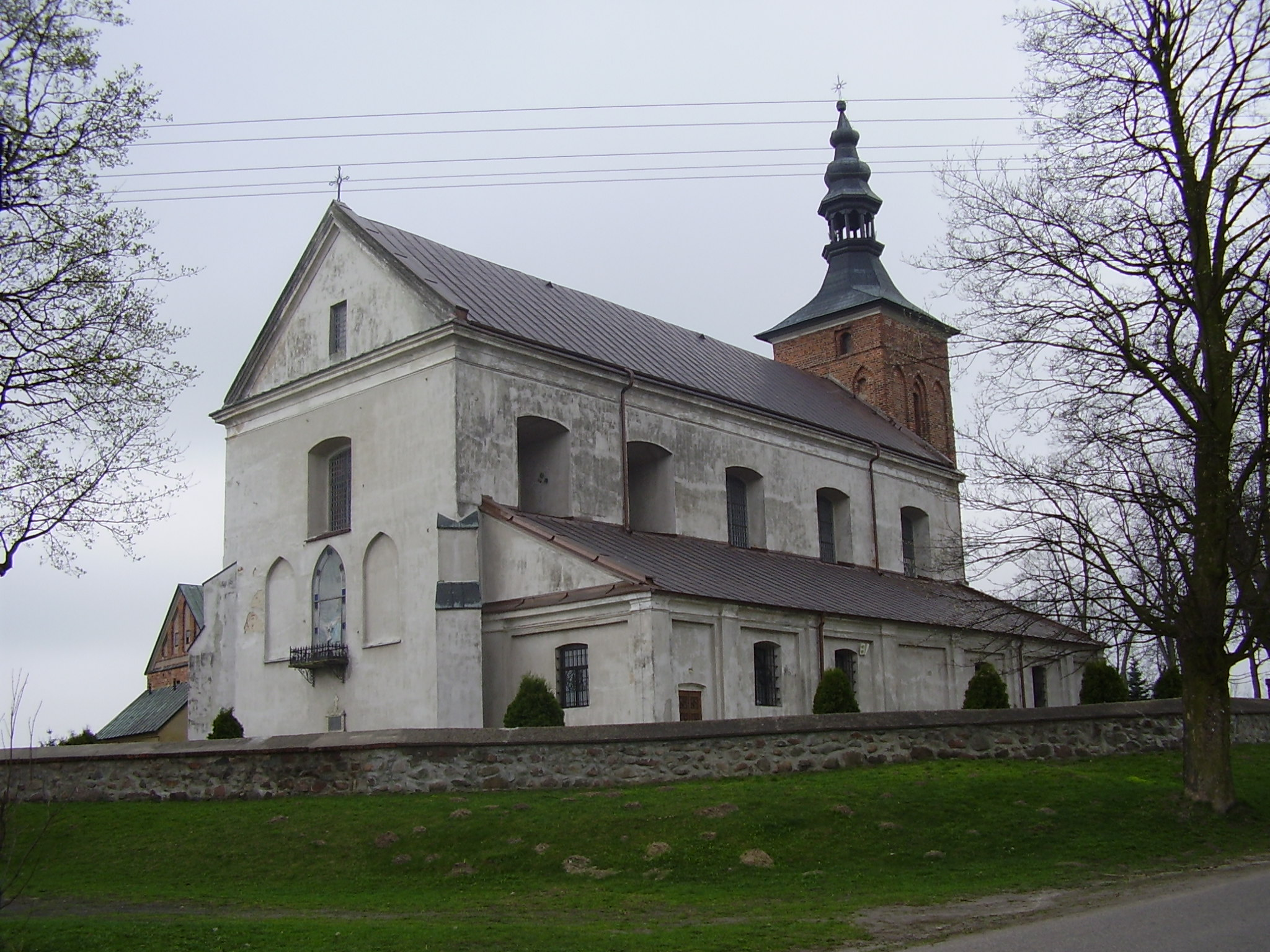 St. Martin Church in Oporów, Poland